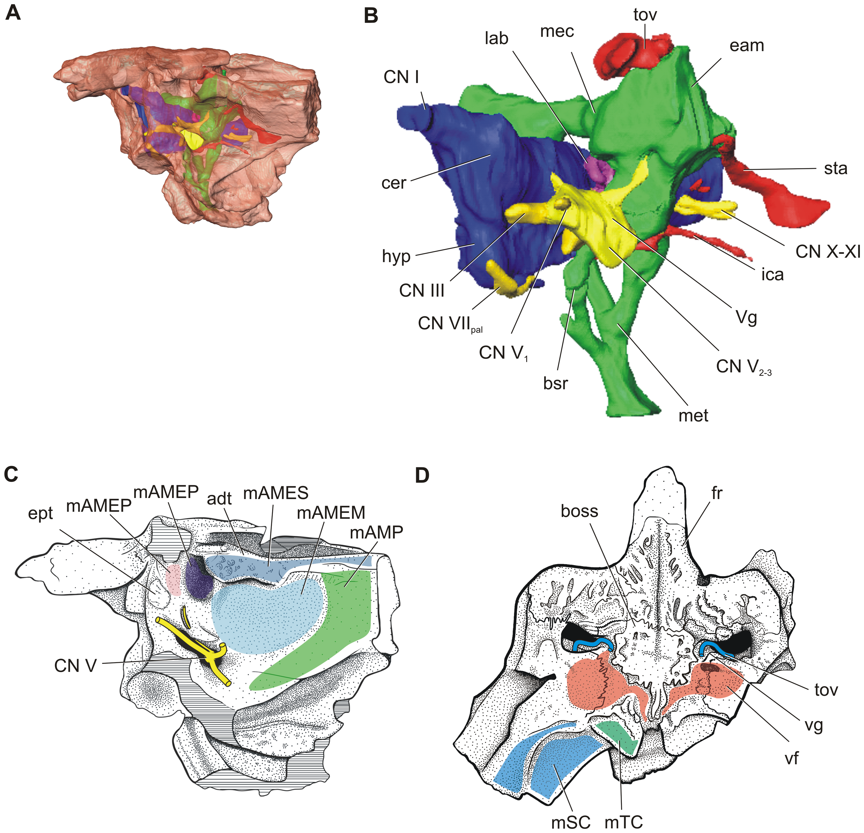 3D reconstruction of Aegisuchus witmeri with brain endocast and other soft tissue structures in left, oblique lateral view. Brain volume (~40 cm3) was used to estimate head length. H, scout image of G. Abbreviations: adt, adductor tubercle; boss, integumentary boss; bsr, basisphenoid recess; cer, cerebrum; CN I, olfactory tract; CN III, oculomotor nerve; CN V1, ophthalmic nerve; CN V2–3, maxillary nerve; CN V3, mandibular nerve; CN VIIpal, palatine ramus of facial nerve; CN X–XI, vagus and accessory nerves; dtf dorsotemporal fenestra; eam, external acoustic meatus; ept, epipterygoid; fV, trigeminal foramen; fr, frontal; fnSO, supraorbital nerve foramen; hyp, hypophysis (pituitary gland); ica, internal carotid artery; lab, labyrinth; mAMES, m. adductor mandibulae externus superficialis; mAMEM, m. adductor mandibulae externus medialis; mAMEP, m. adductor mandibulae externus profundus; mAMP, m. adductor mandibulae posterior; mSC, m. splenius capitis; mTC, m. transverses capitis; mec, middle ear cavity; met, median eustachian tube; mPSTs, m. pseudotemporalis superficilais; sta, stapedial artery; sq, squamosal; tov, temporoorbital vessels; Vg, trigeminal ganglion; vf, vascular fossa; vg, vascular groove.